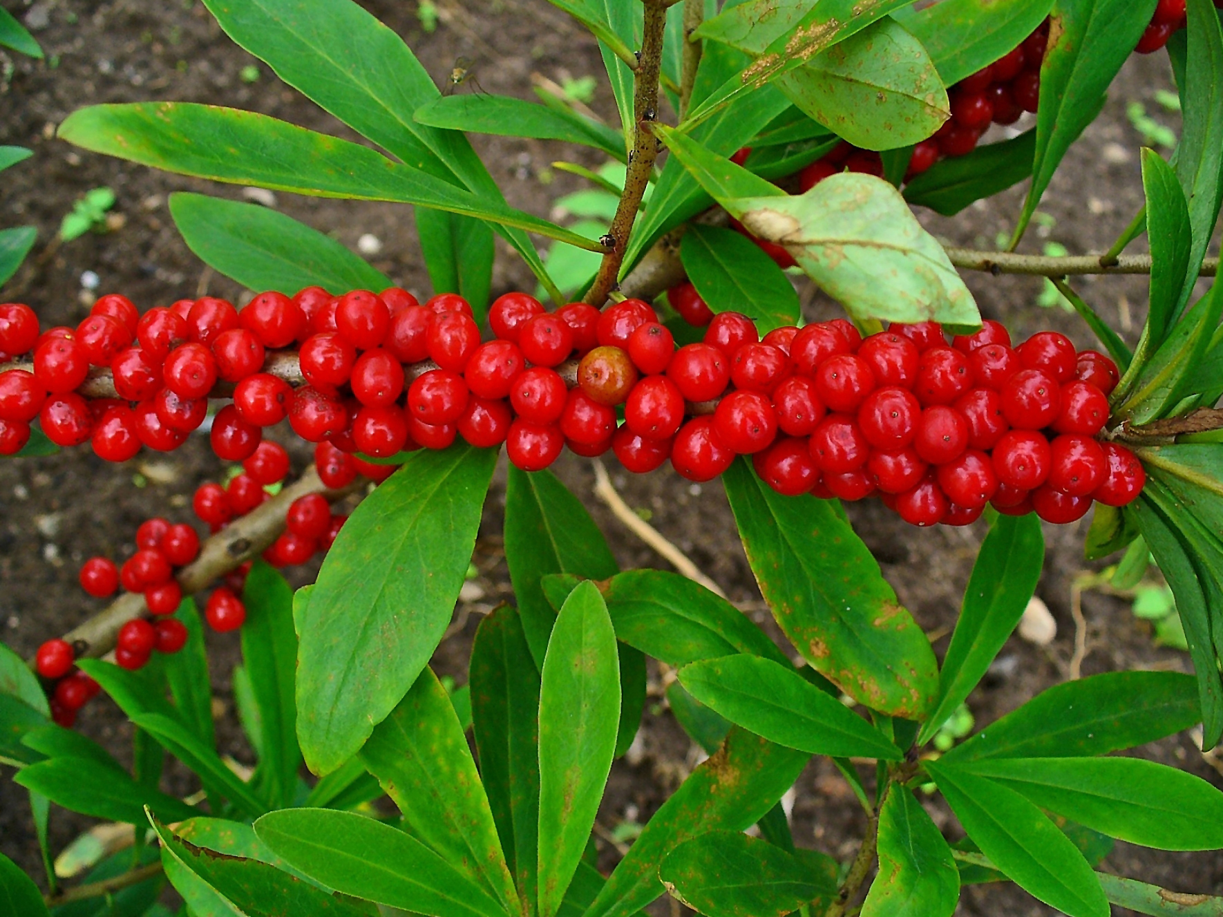 Daphne mezereum, Thymelaeaceae, Mezereon, fruits. The bark is used in homeopathy as remedy: Mezereum (Mez.)